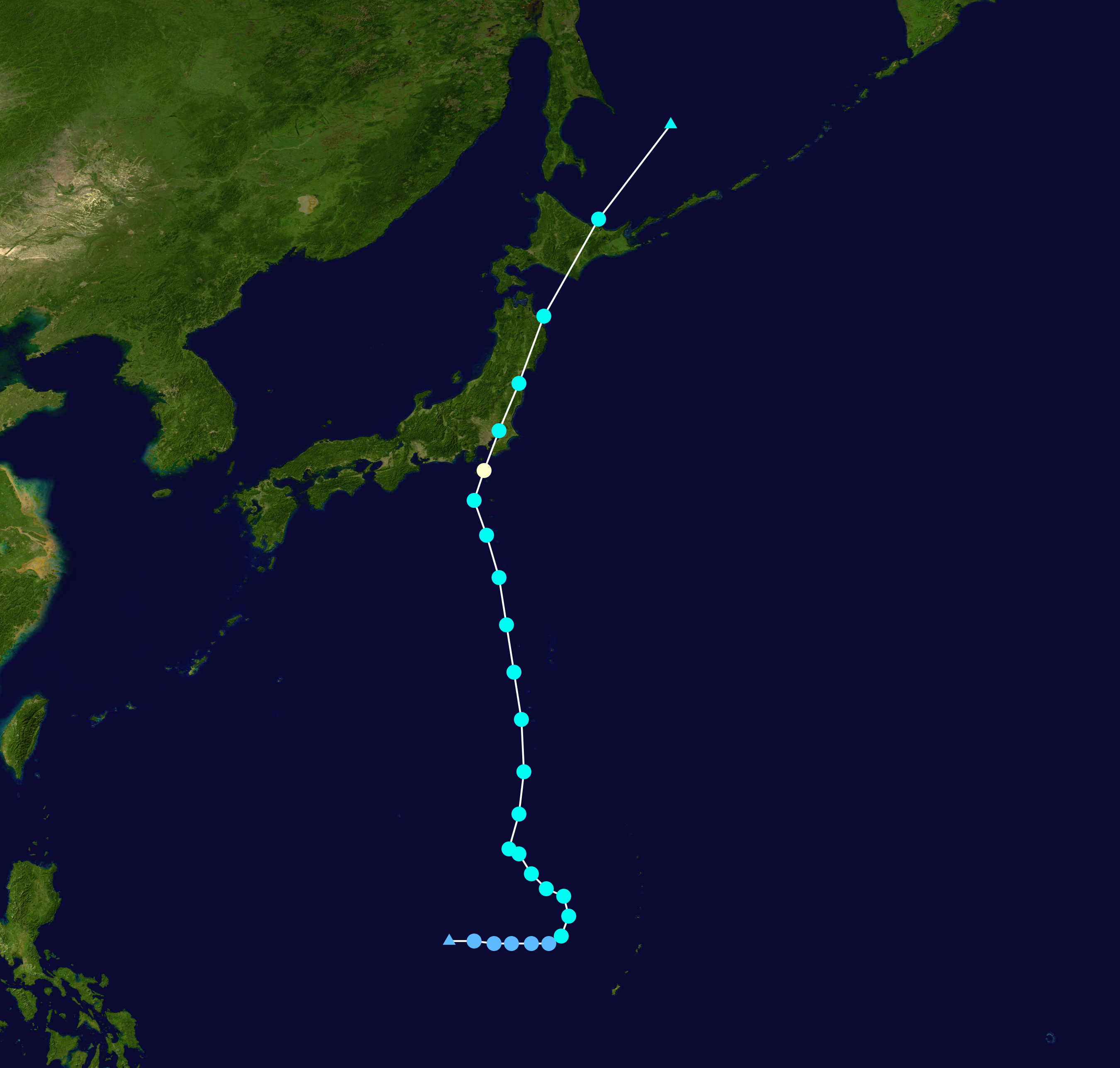 Track map of Typhoon Mindulle of the 2016 Pacific typhoon season. The points show the location of the storm at 6-hour intervals. The colour represents the storm's maximum sustained wind speeds as classified in the Saffir–Simpson scale (see below), and the shape of the data points represent the nature of the storm, according to the legend below. Saffir–Simpson scale Tropical depression≤38 mph≤62 km/h Category 3111–129 mph178–208 km/h Tropical storm39–73 mph63–118 km/h Category 4130–156 mph209–251 km/h Category 174–95 mph119–153 km/h Category 5≥157 mph≥252 km/h Category 296–110 mph154–177 km/h Unknown Storm type Tropical cyclone Subtropical cyclone Extratropical cyclone / Remnant low / Tropical disturbance / Monsoon depression